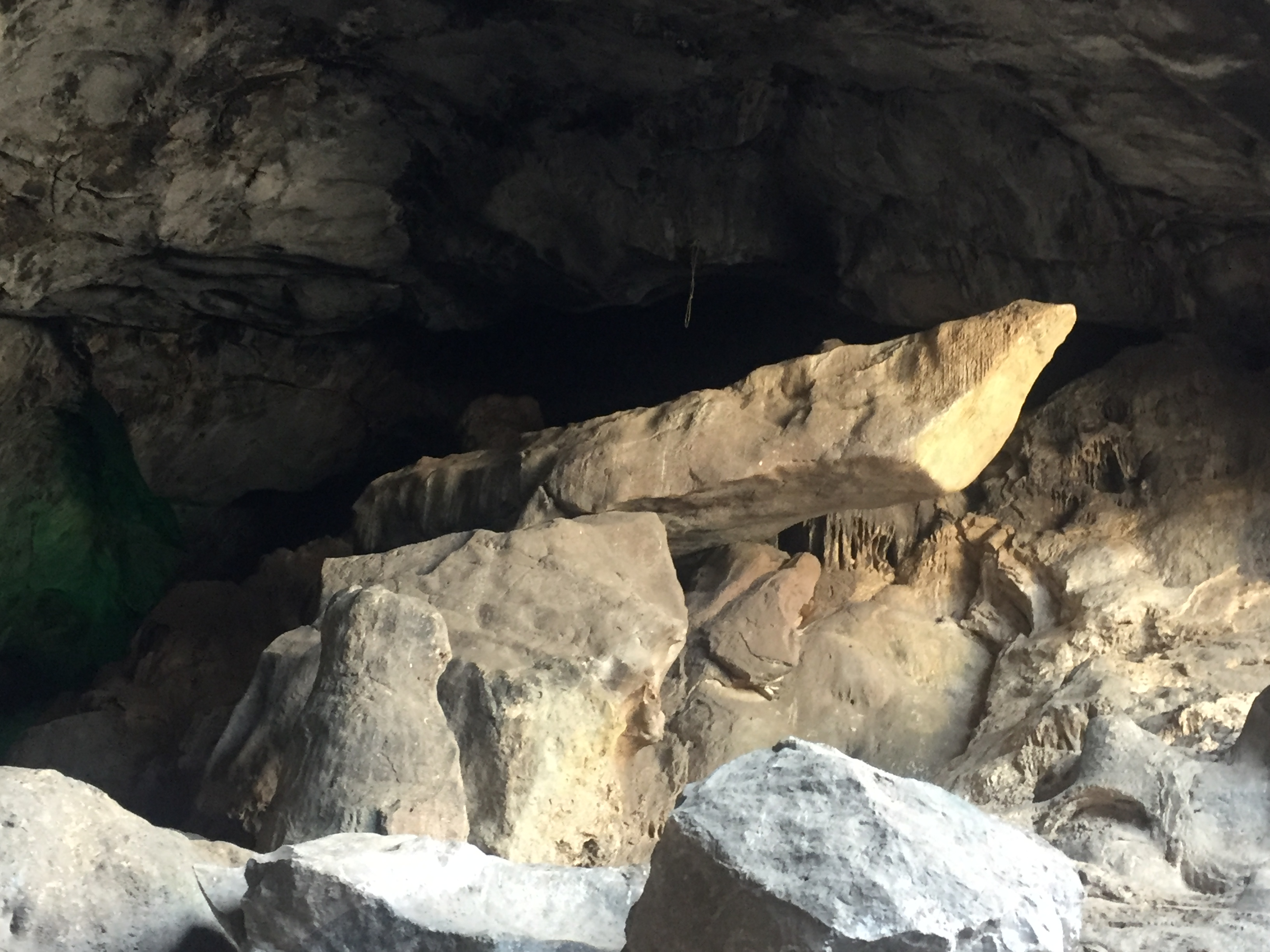 Large rock formation commonly known as "The Whale", found in the Xoxafi Caves, in the municipality of Santiago de Anaya, Hidalgo, Mexico